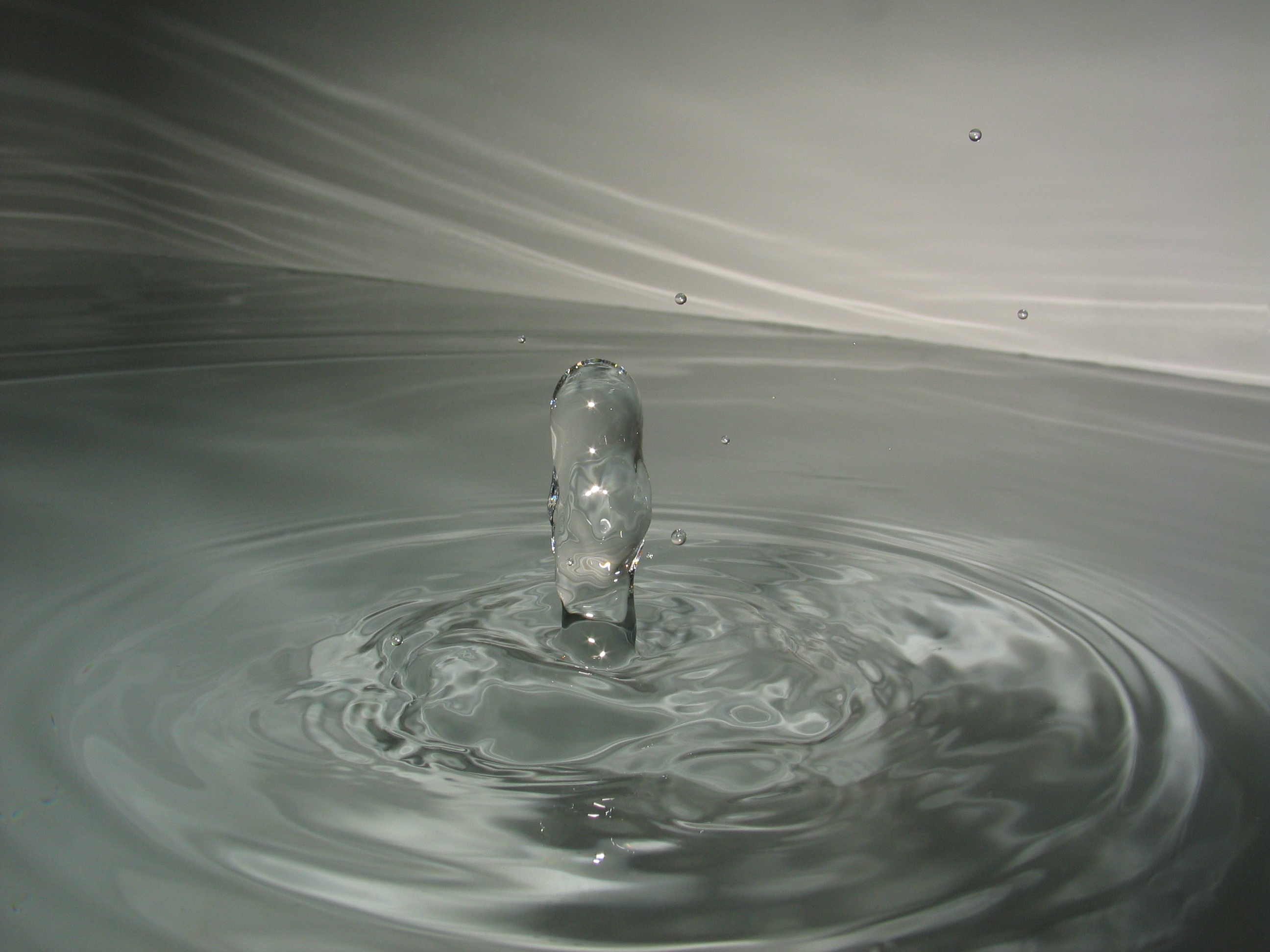 backjet of a drop of water after impact on a water-surface.